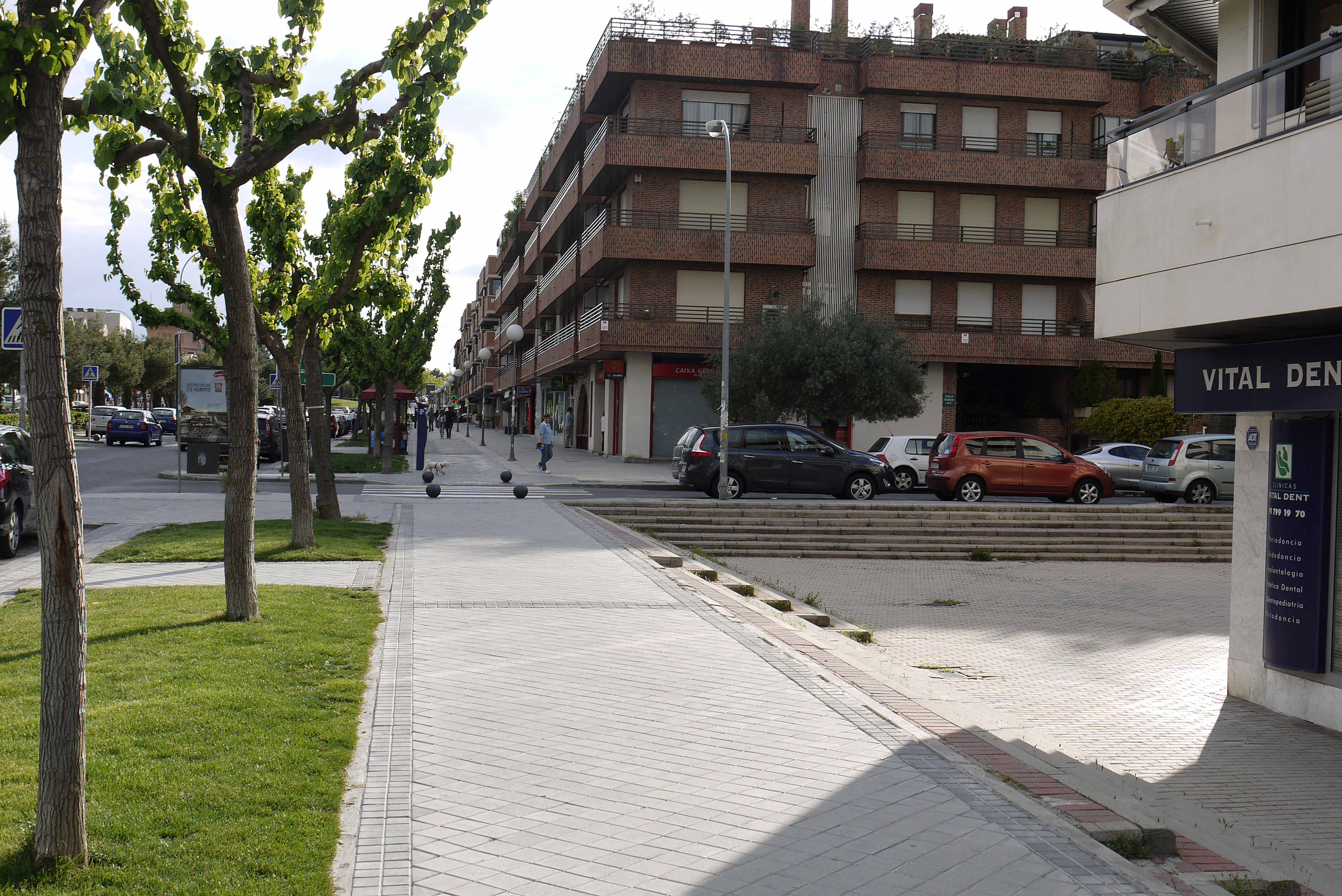 Avenida Europa, Pozuleo de Alarcón, Spain. Side walk.